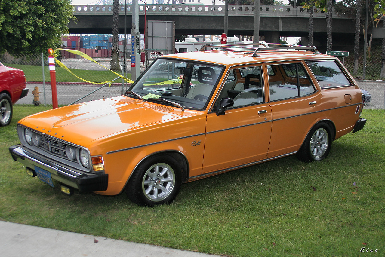 1978 Dodge Colt wgn - orange - modified, at car show in Long Beach, CA